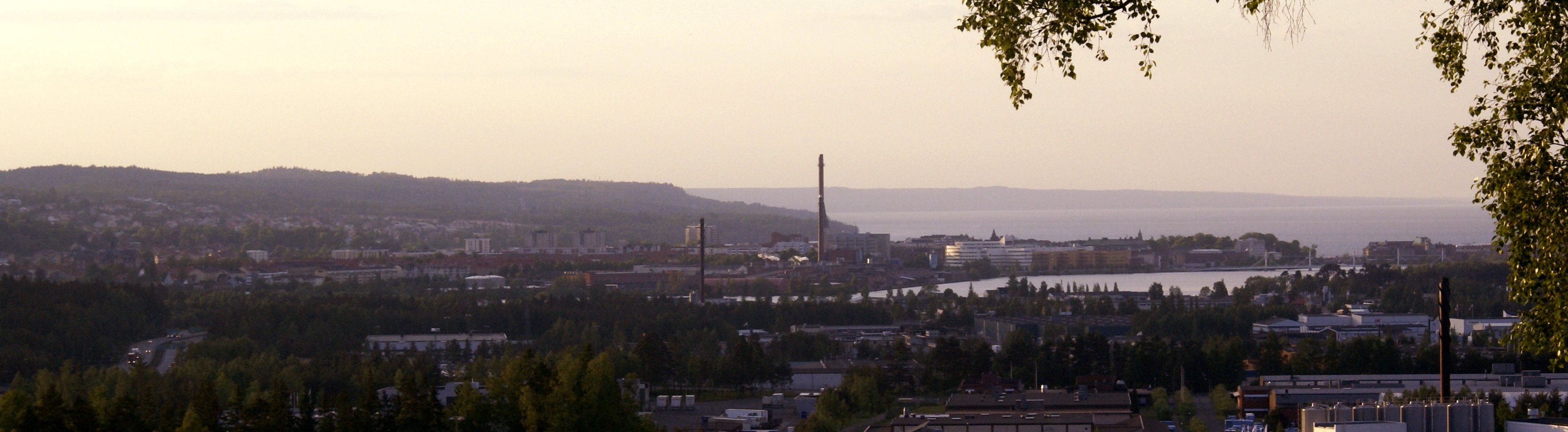 Panorama over Jönköping